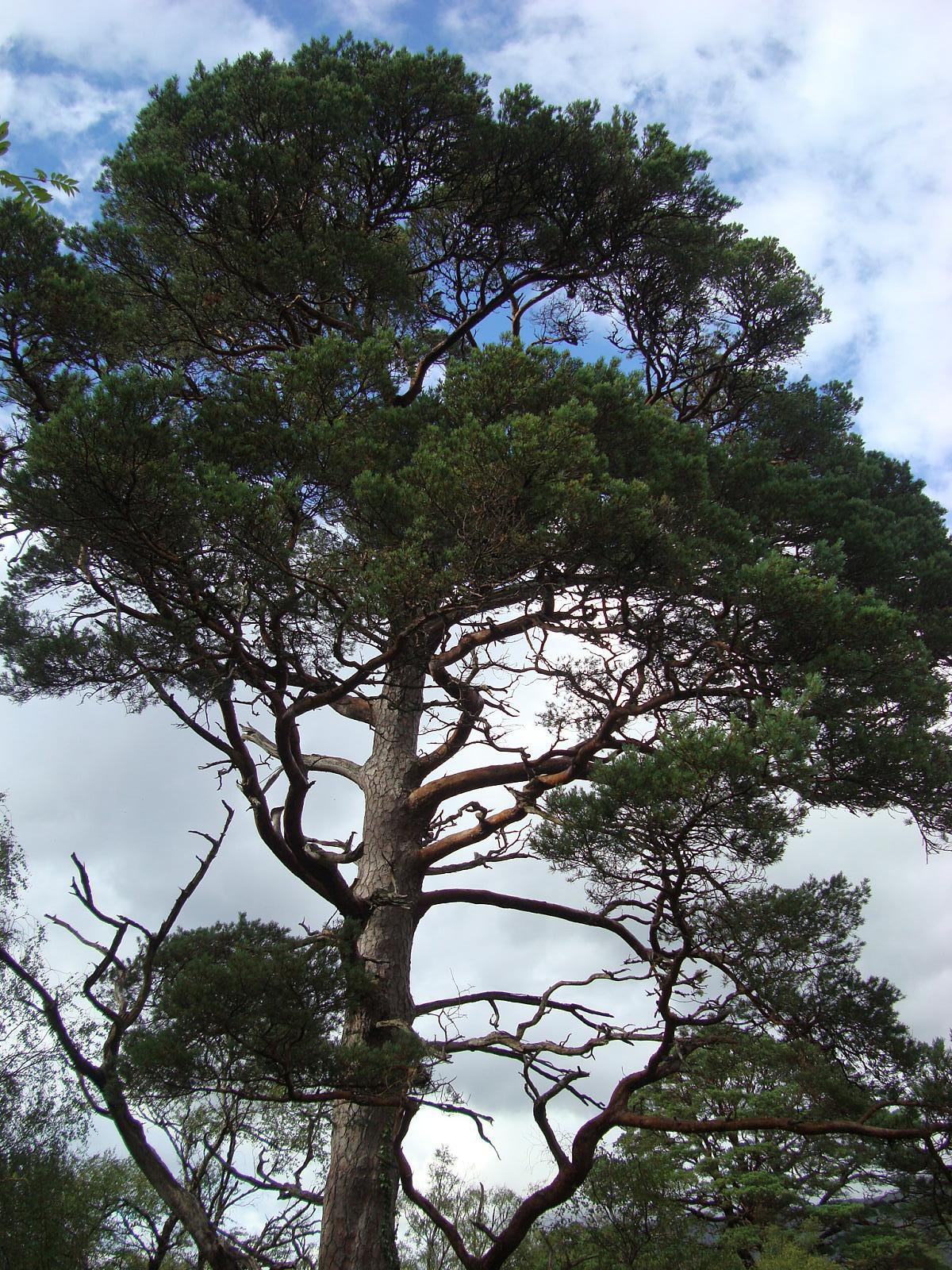 Natural Scots Pine tree of Atlantic ecotype, Beinn Eighe, Wester Ross, Scotland.